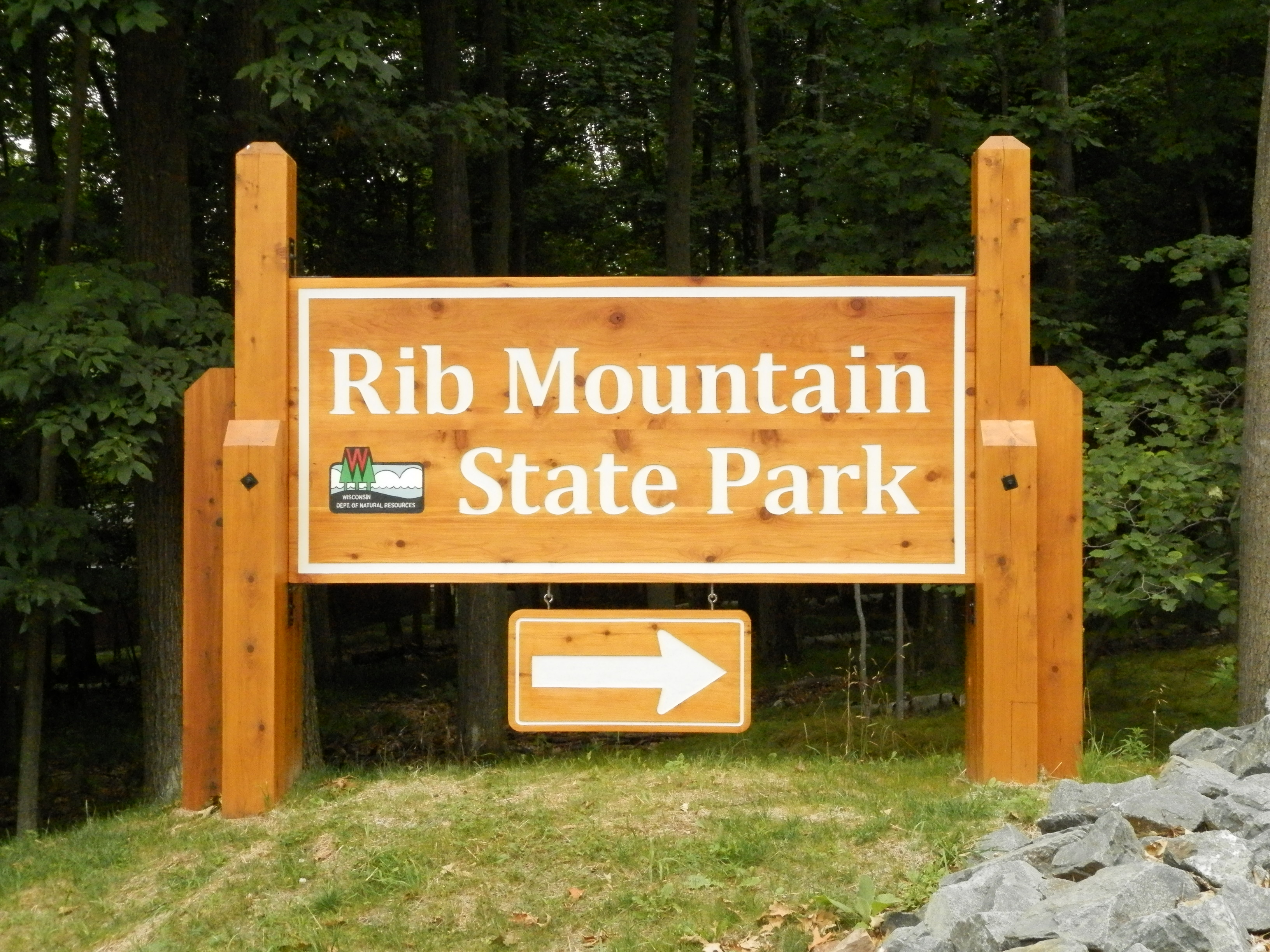 Rib Mountain State Park, Wausau, Wisconsin